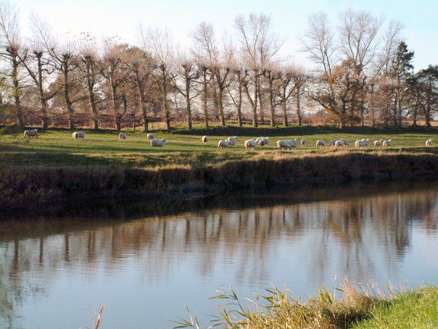 River Rother with sheep and pollarded willows. River Rother near the B2082 on the Rother Levels, near Iden, East Sussex